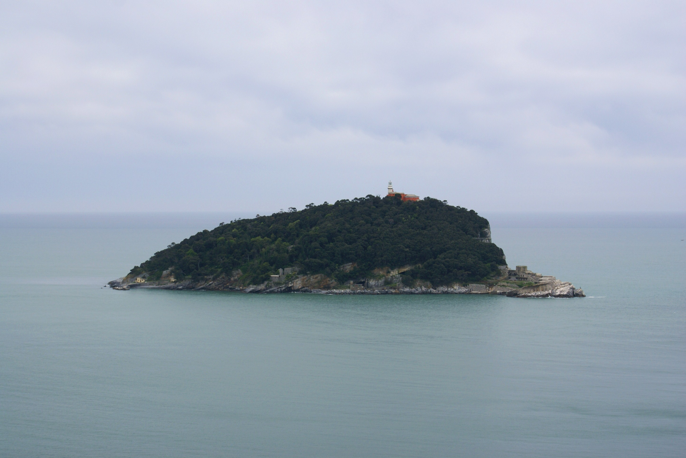 Isola del Tino, as seen from Isola Palmaria - Portovenere, Italy - San Venerio lighthouse